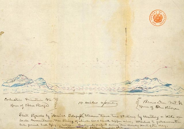 Drawing made by Mahlon Loomis, circa 1866, in one of his notebooks, illustrating what he described as a successful wireless communication transmission experiment he made that year in Virginia, spanning 18 miles (29 kilometers) between Bear's Den mountain and an unnamed peak in the Catoctin Mountain range. This image is part of the U.S. Library of Congress' "Mahlon Loomis’s Journal" collection. (